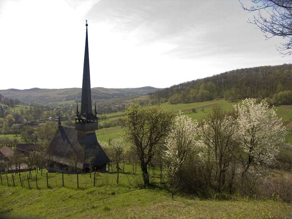 wooden church in Fildu de Sus, Sălaj county, Romania